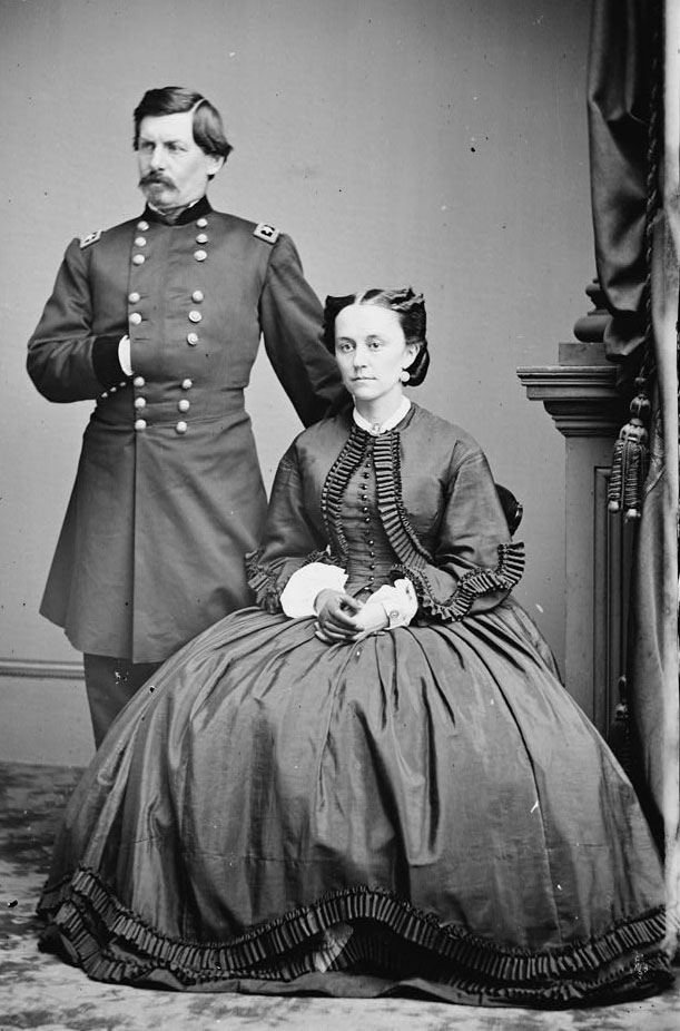 [Portrait of Maj. Gen. George B. McClellan, officer of the Federal Army, and his wife, Ellen Mary Marcy]. CREATED/PUBLISHED [Between 1860 and 1865] NOTES Reference: Civil War photographs, 1861-1865 / compiled by Hirst D. Milhollen and Donald H. Mugridge, Washington, D.C. : Library of Congress, 1977. No. 0943 Title from Milhollen and Mugridge. Forms part of Selected Civil War photographs, 1861-1865 (Library of Congress) SUBJECTS United States--History--Civil War, 1861-1865. McClellan, George B. Portrait photographs. Wet collodion negatives. MEDIUM 1 negative : glass, wet collodion. CALL NUMBER LC-B813- 1765 REPRODUCTION NUMBER LC-DIG-cwpb-05665 DLC (digital file from original neg.) LC-B8172-1765 DLC (b&w film neg.) SPECIAL TERMS OF USE No known restrictions on publication. PART OF Selected Civil War photographs, 1861-1865 (Library of Congress) REPOSITORY Library of Congress Prints and Photographs Division Washington, D.C. 20540 USA